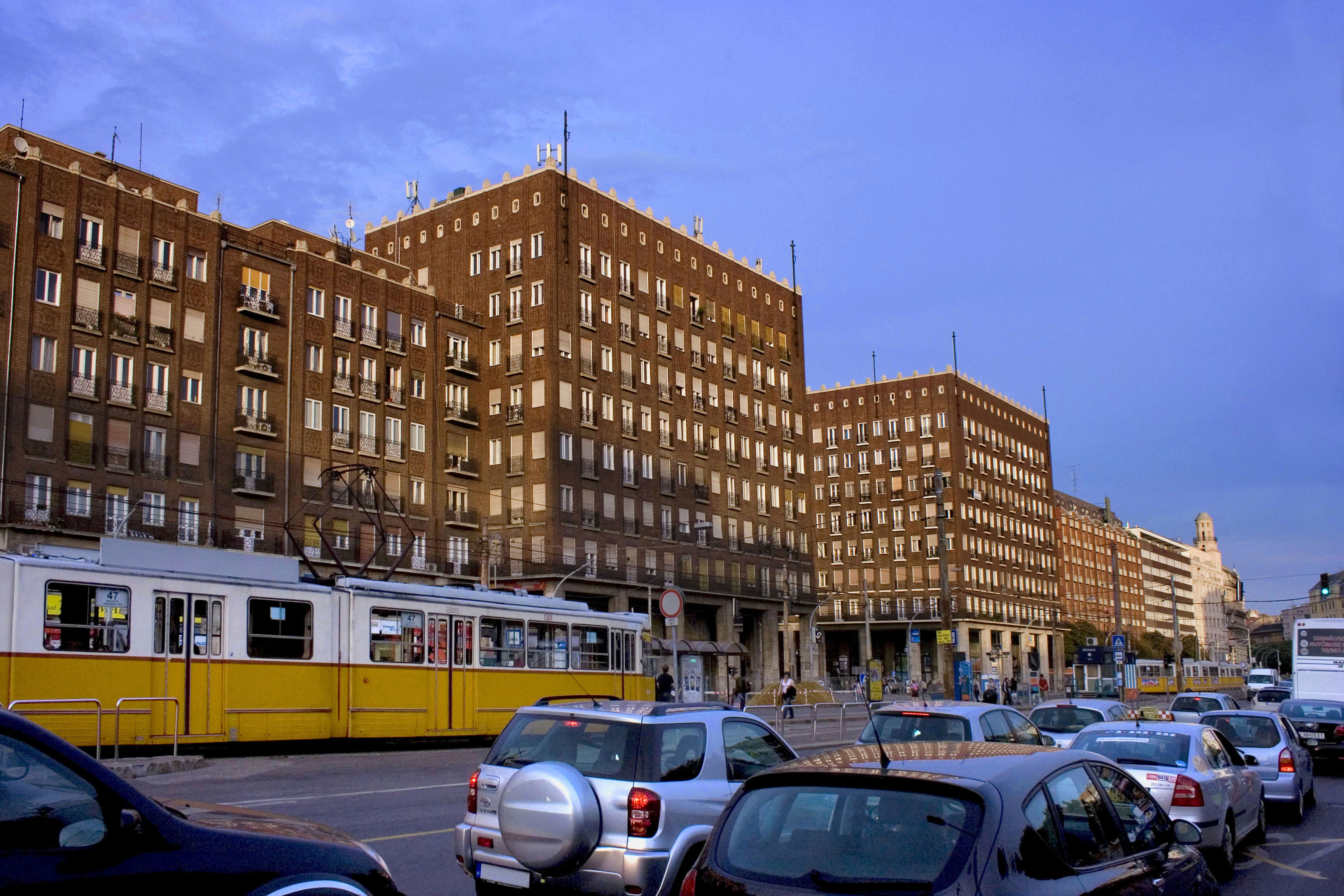 Hungary, Budapest, Downtown, Small Boulevard and the Deak square corner, with houses Madách.